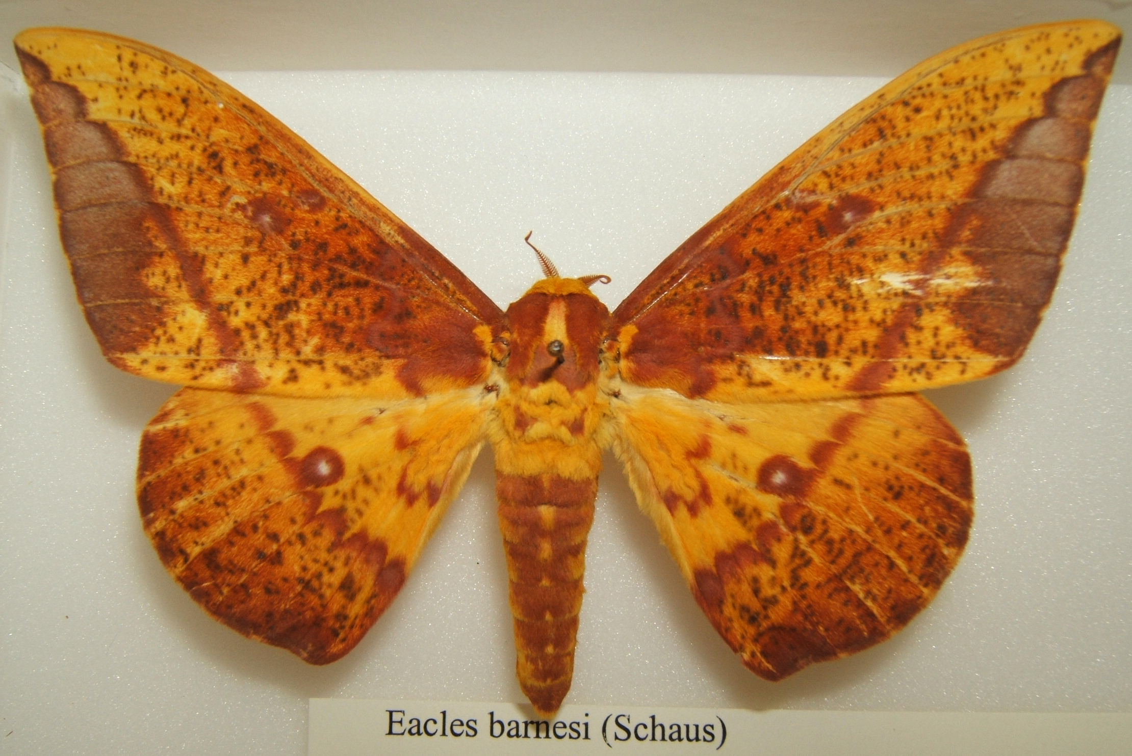 Eacles barnesi adult male taken by Shawn Hanrahan at the Texas A&M University Insect Collection in College Station, Texas.